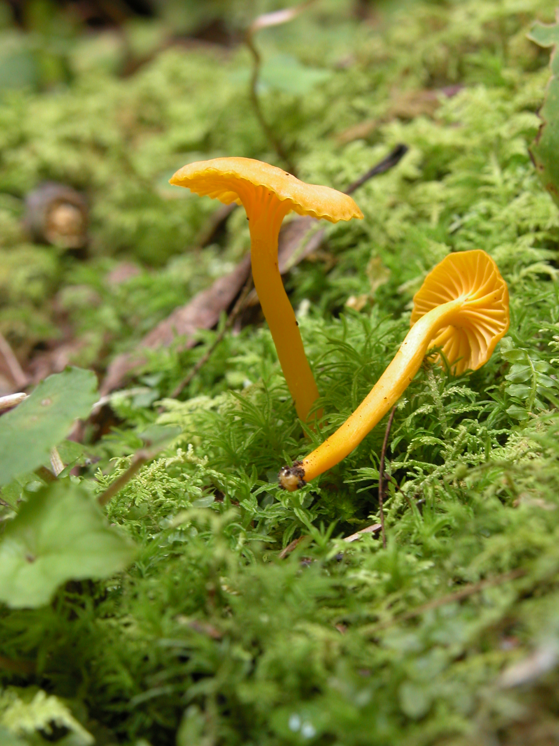 Cantharellus minor Peck Location: Asheville, North Carolina, USA Observation Notes: Found during the 2004 NAMA foray to Asheville, North Carolina, at a picnic area along the Blue Ridge Parkway. Image Notes: Loaded from Cantharellus/minor/2004-07-14-1.jpg. For more information about this, see the observation page at Mushroom Observer.